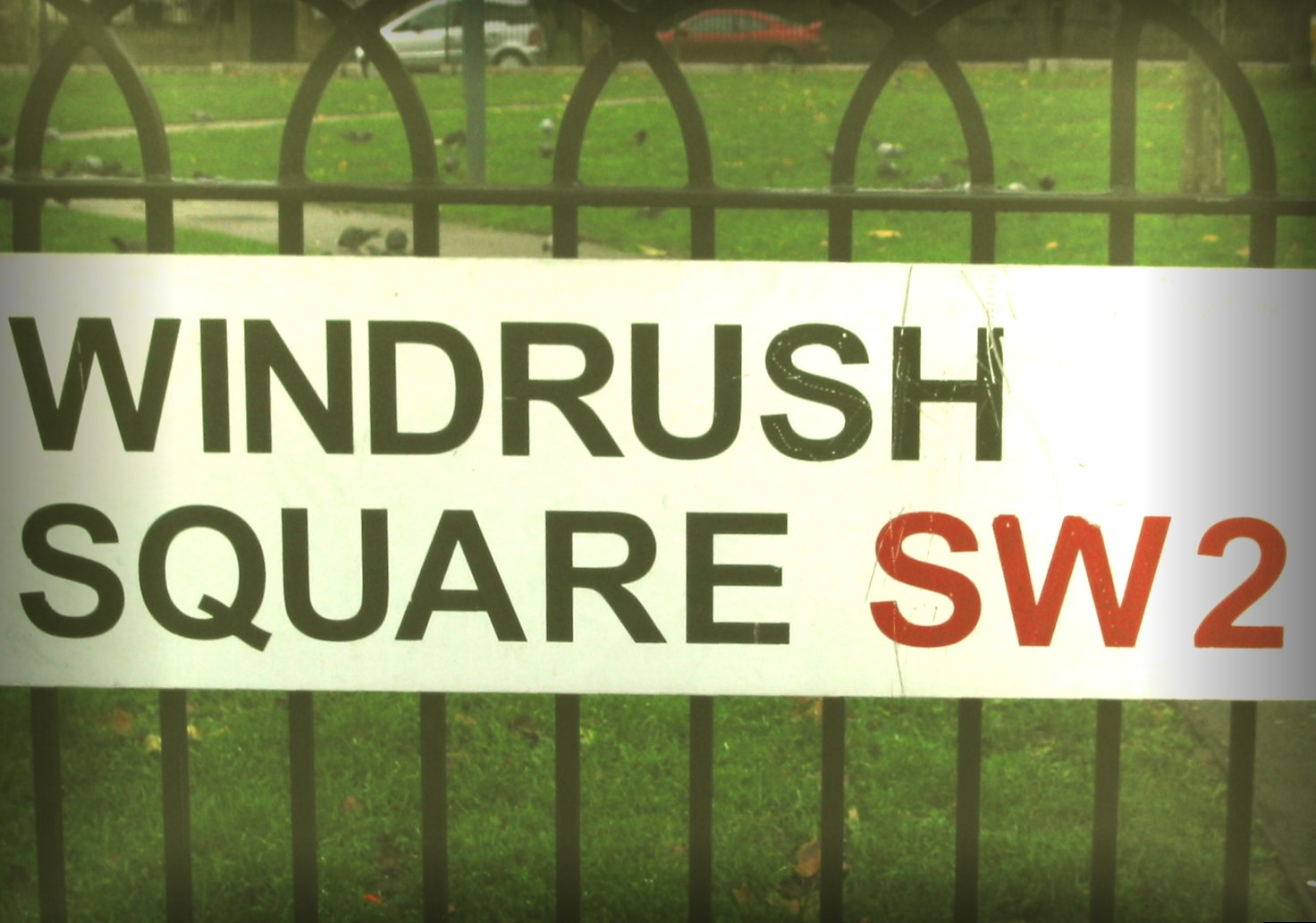 Cropped version of Image:Windrush sign 1.JPG take by User:Felix-Felix